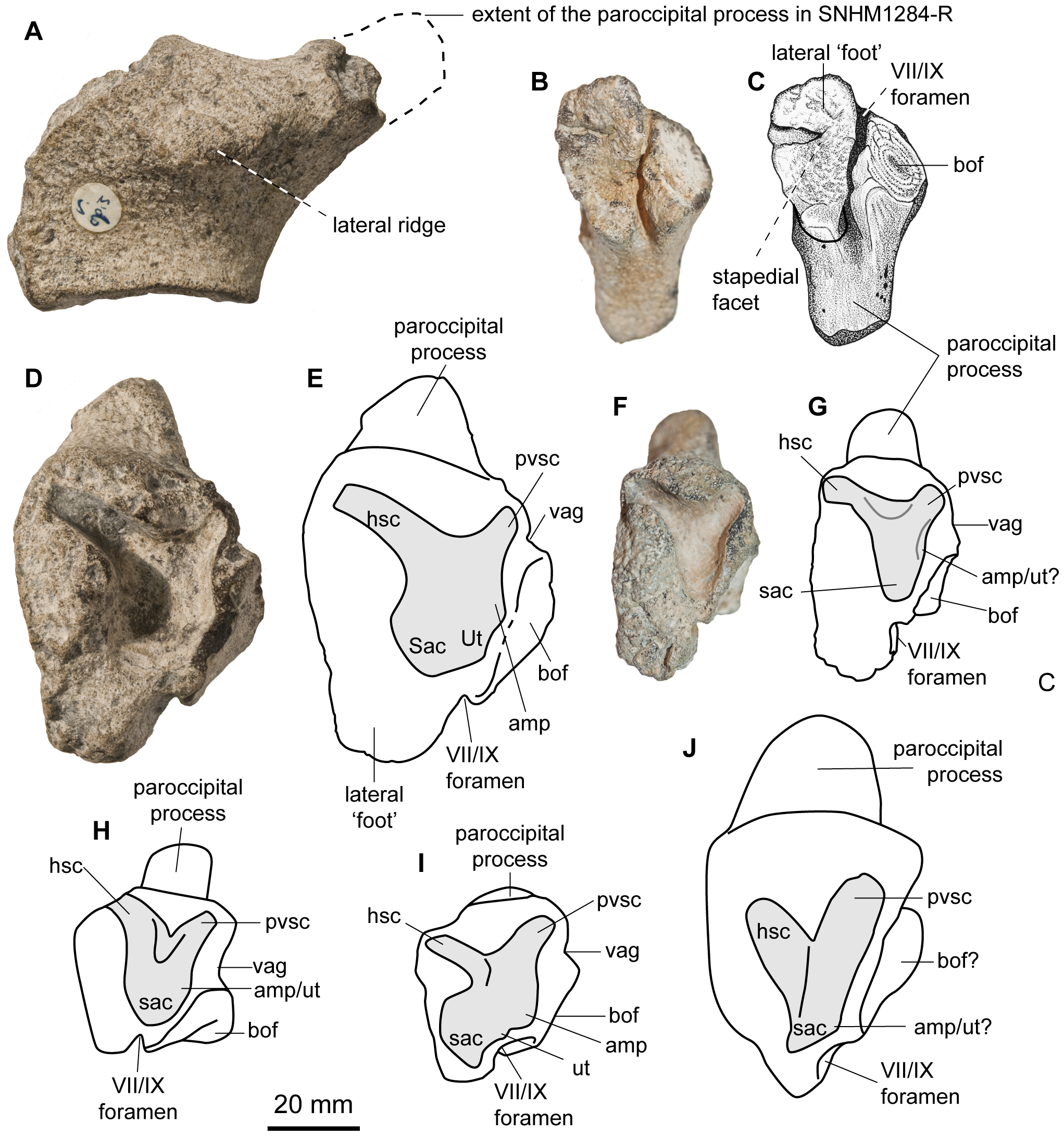 Right opisthotics of Acamptonectes densus compared to that of other ophthalmosaurids. A: A. densus (GLAHM 132588, holotype), in posterolateral view showing the lateral ridge. B,C: A. densus (SNHM1284-R), in ventral view showing the peculiar thickened lateral foot. D,E: A. densus (GLAHM 132588, holotype), in otic (anteromedial) view. F,G: A. densus (SNHM1284-R), in otic view. H: Ophthalmosaurus icenicus (NHMUK R4523), in otic view, redrawn from Kirton [43]. I: Platypterygius australis (AM F98273), in otic view, redrawn from Kear [58]. J: Mollesaurus periallus (MOZ 2282, holotype), in otic view, redrawn from Fernández [45]. Abbreviations: amp: ampulla; bof: basioccipital facet; hsc: impression of the horizontal semicircular canal; pvsc: impression of the posterior vertical semicircular canal; sac: sacculus; ut: utriculus; vag: vagus foramen.